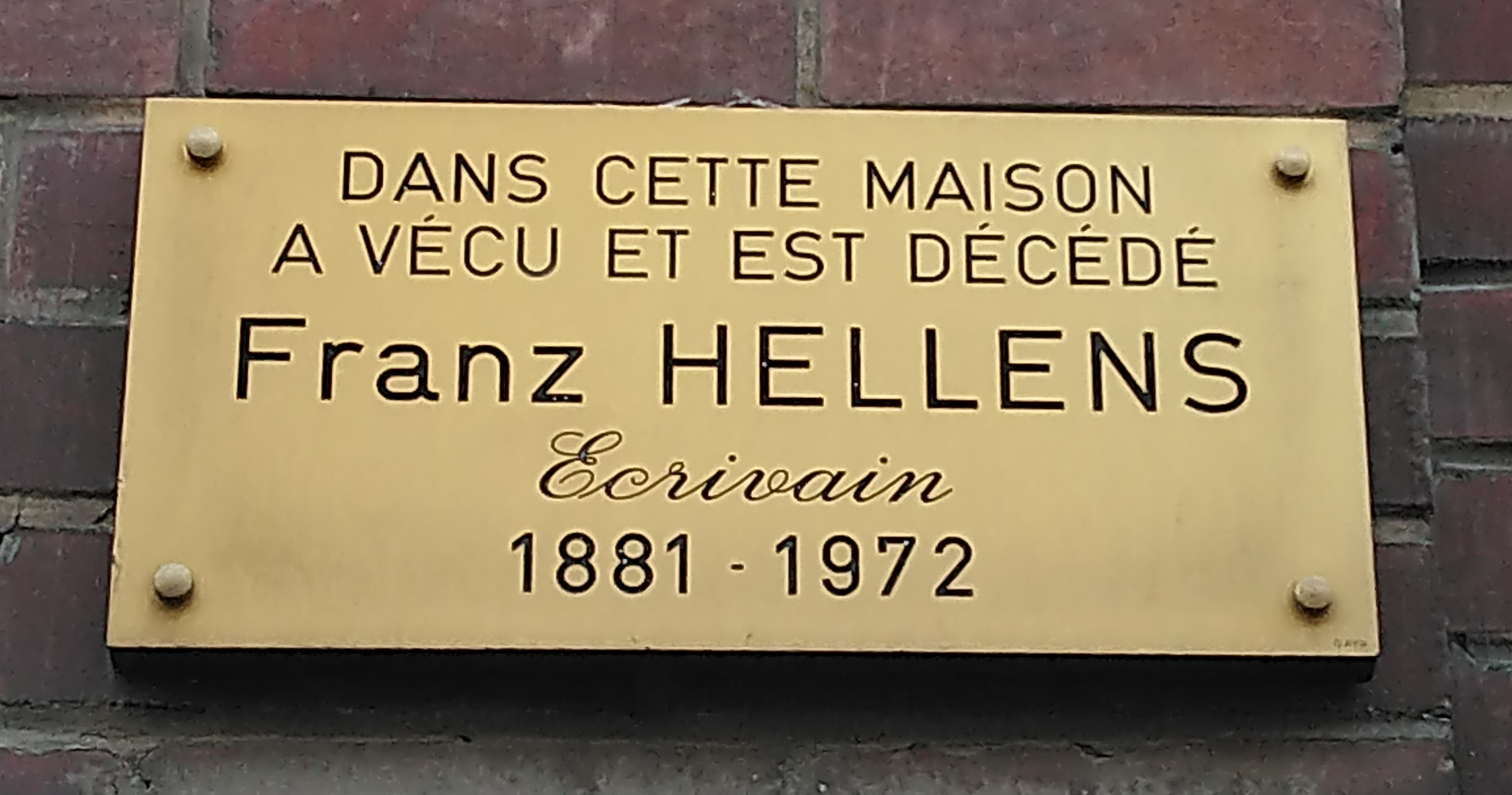 Memorial plaque of Franz Hellens on the facade of his home in Ixelles, Bruxelles